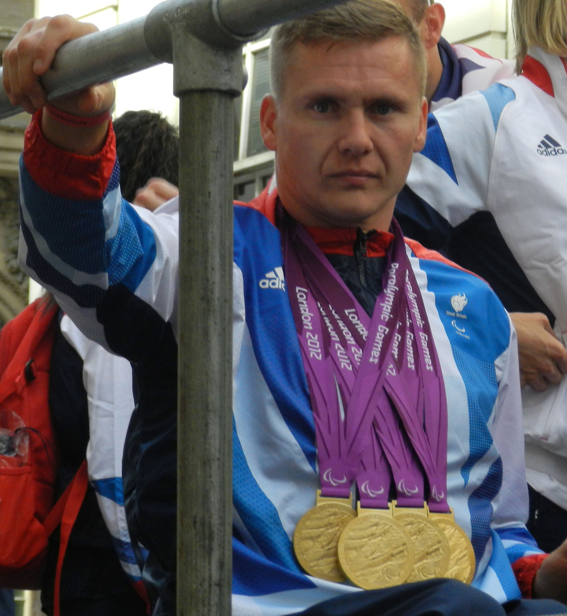 British Paralympian David Weir at the Olympic Victory Parade in London on 10 September 2012 wearing the four gold medals he won during the 2012 Summer Paralympic Games